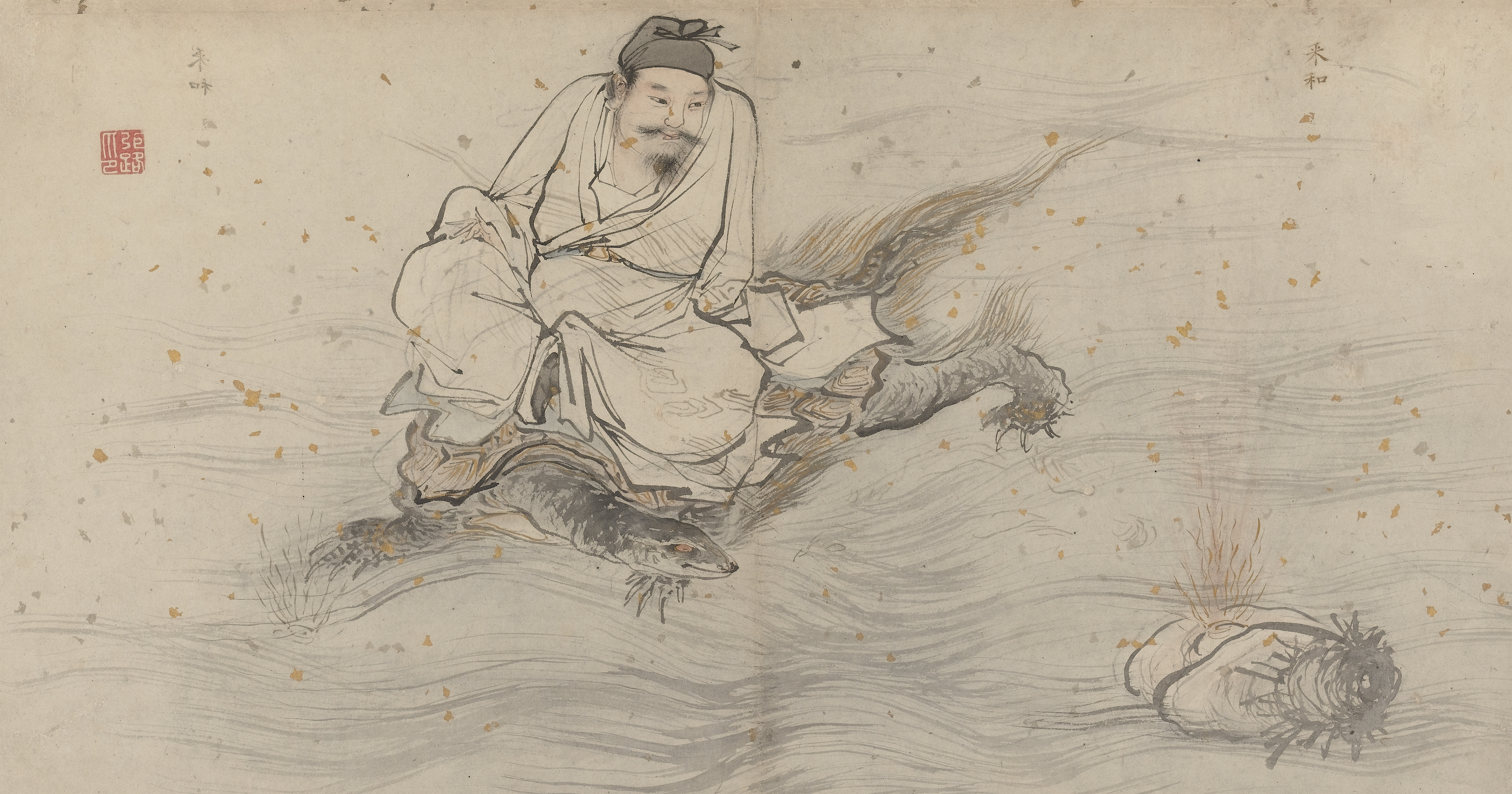 "The immortal Lan Caihe is a loosely defined character among the Eight Immortals, and has been depicted as a boy, a girl, a hermaphrodite or, as here, a man. In this album leaf, he rides on the back of a turtle, a symbol of longevity."— Chester Beatty Library